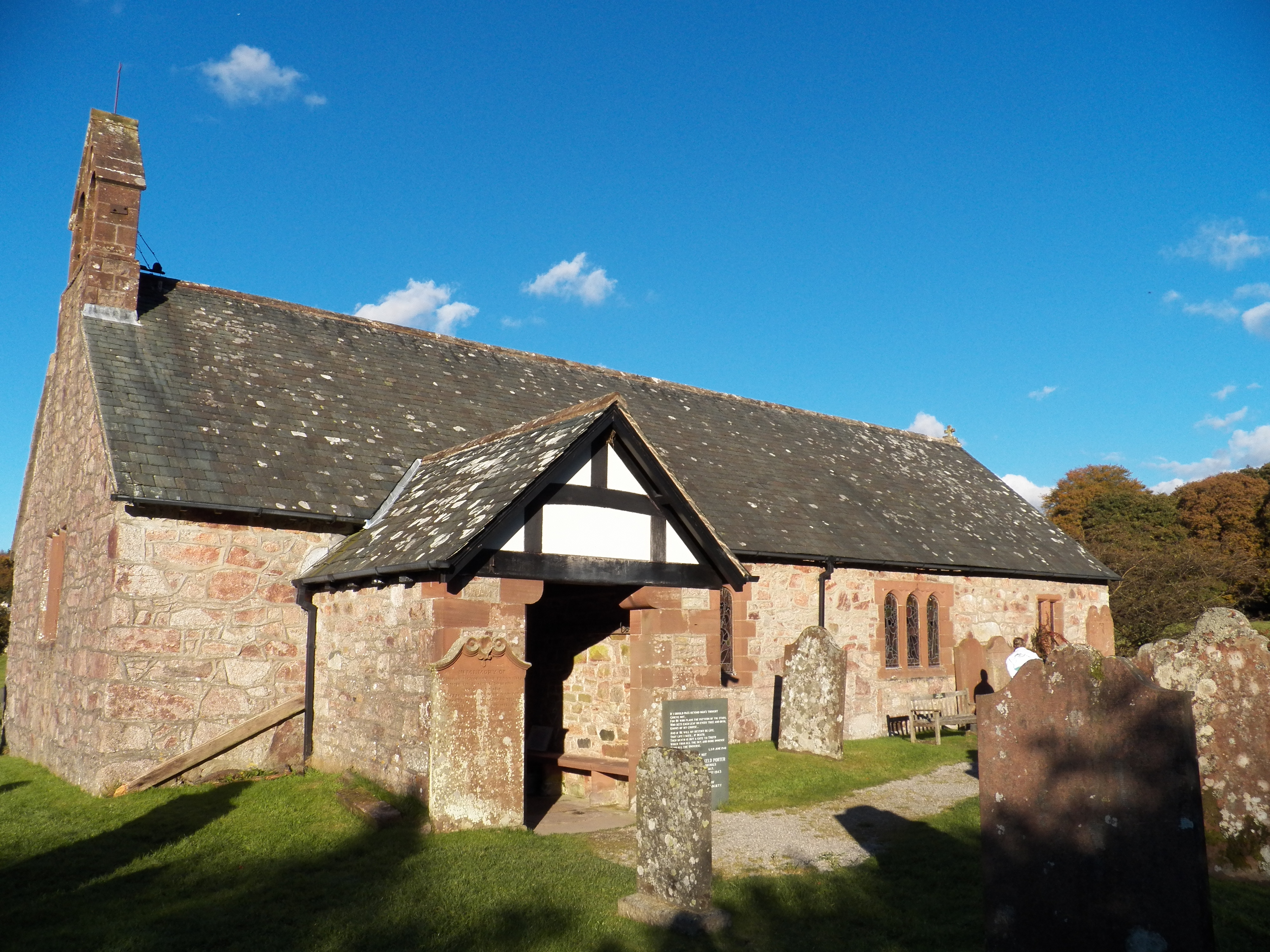 St Catherine's parish church, Boot, Eskdale, Cumbria, seen from the southwest